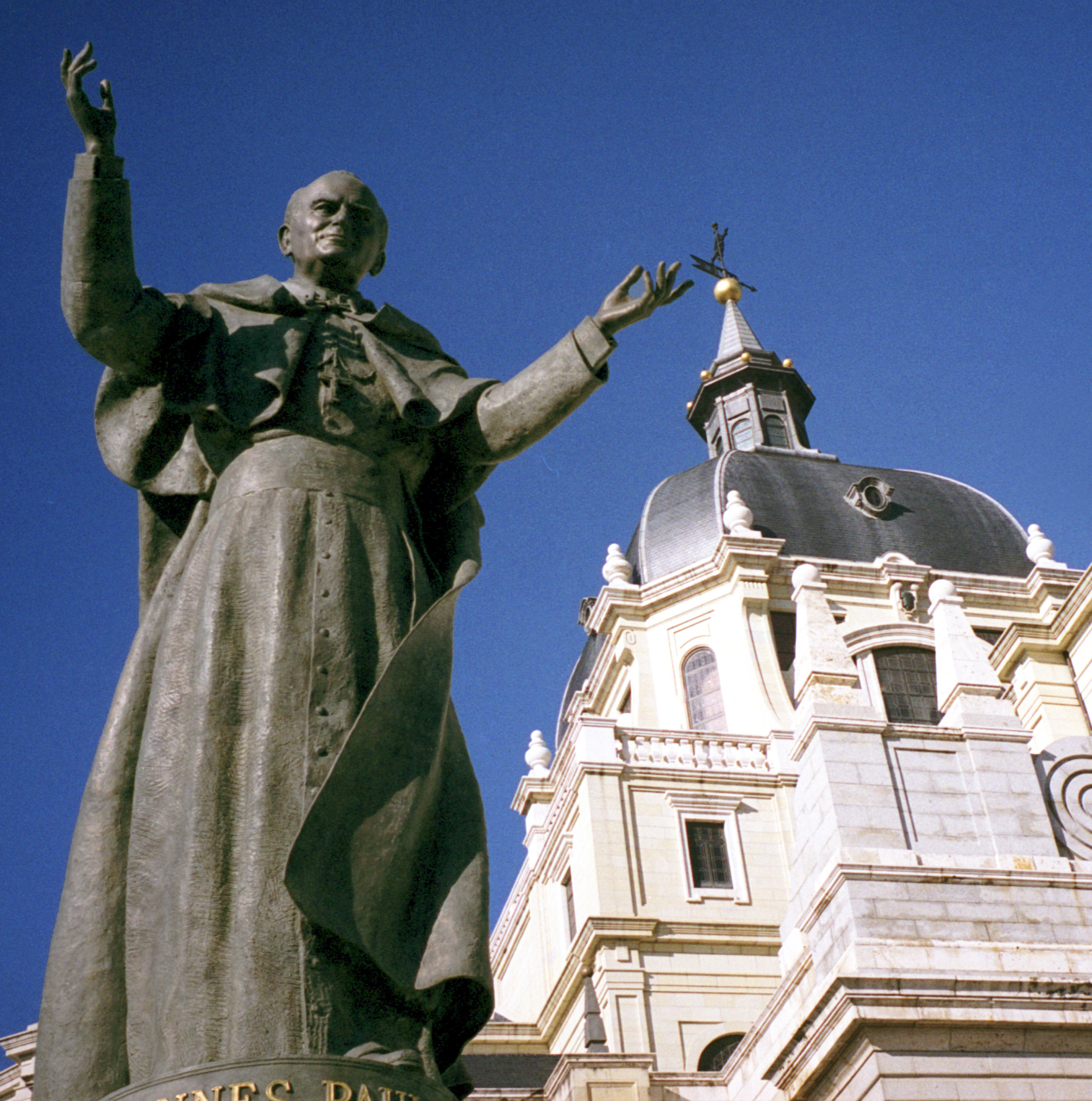 Statue of Pope John Paul II outside the Catedral de la Almudena (Madrid, Spain). Made by sculptor Juan de Ávalos (1911–2006) in 1998.